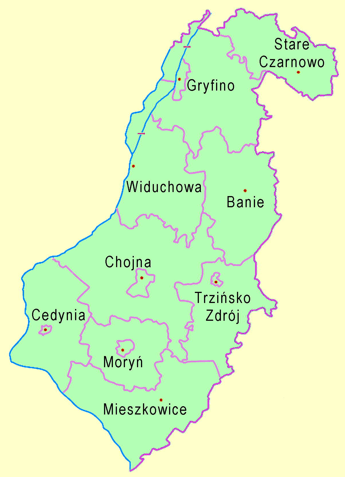 Gryfino County - administrative divisions